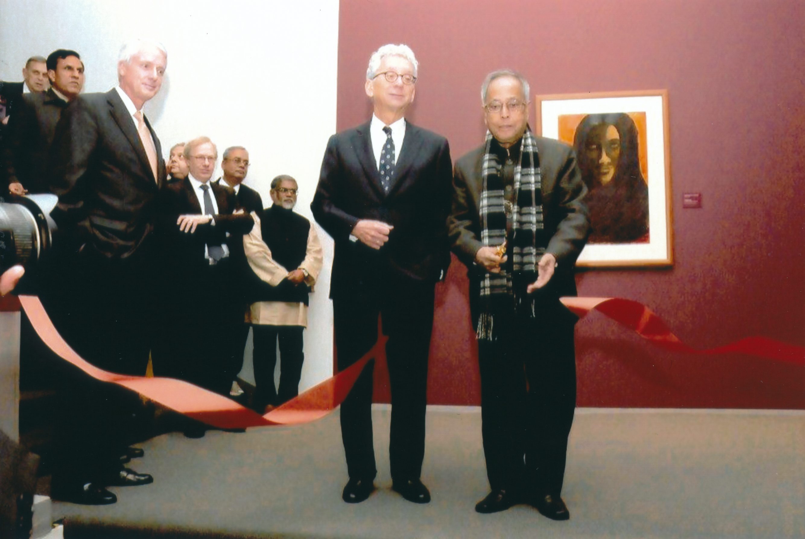 President of India, Pranab Mukherjee inagurates the show in Chicago Art Institute